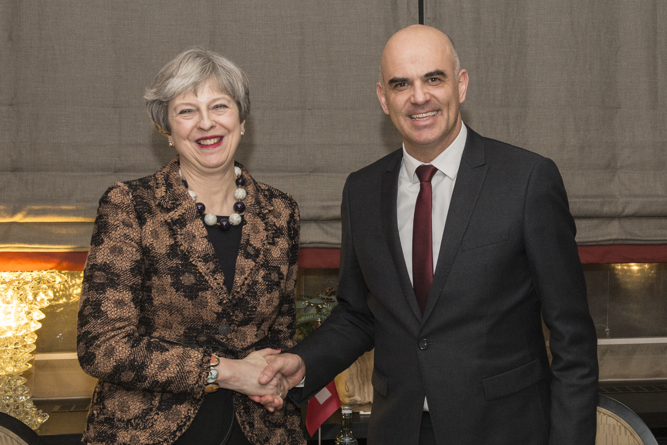 Prime Minister Theresa May attends the World Economic Forum in Davos, Switzerland. The PM met with President Berset of Switzerland. The PM delivering an address